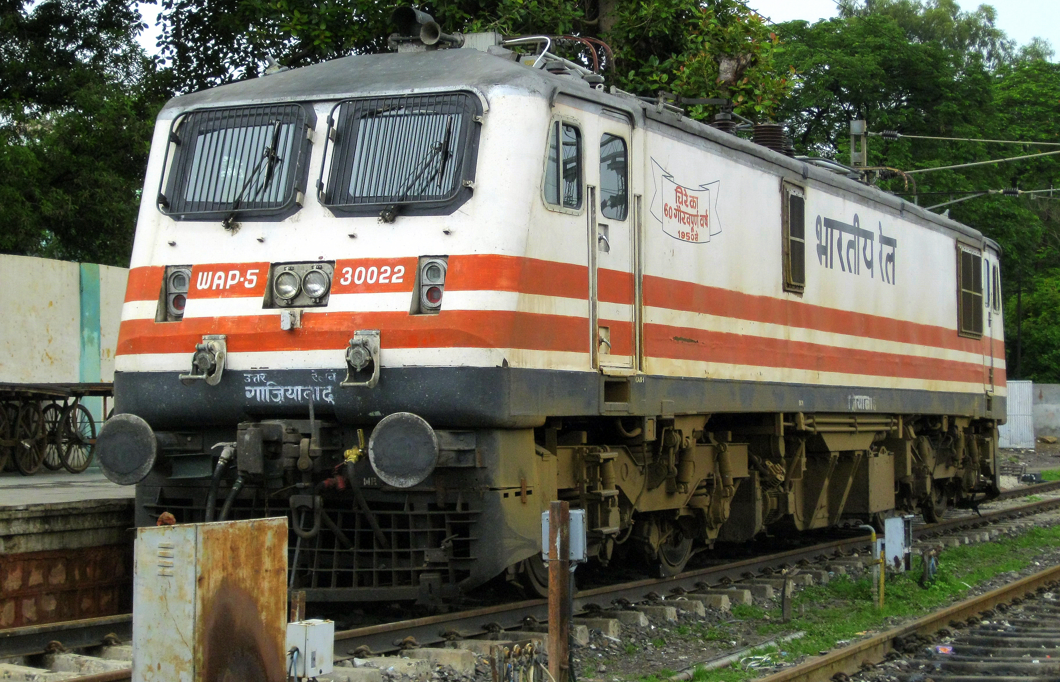 WAP-5 30022 rests at Bhopal.